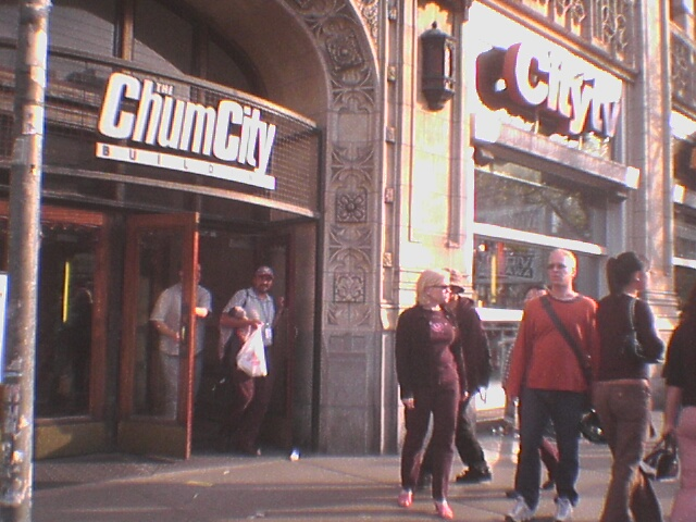 Photo of the The ChumCity building in Toronto, Canada